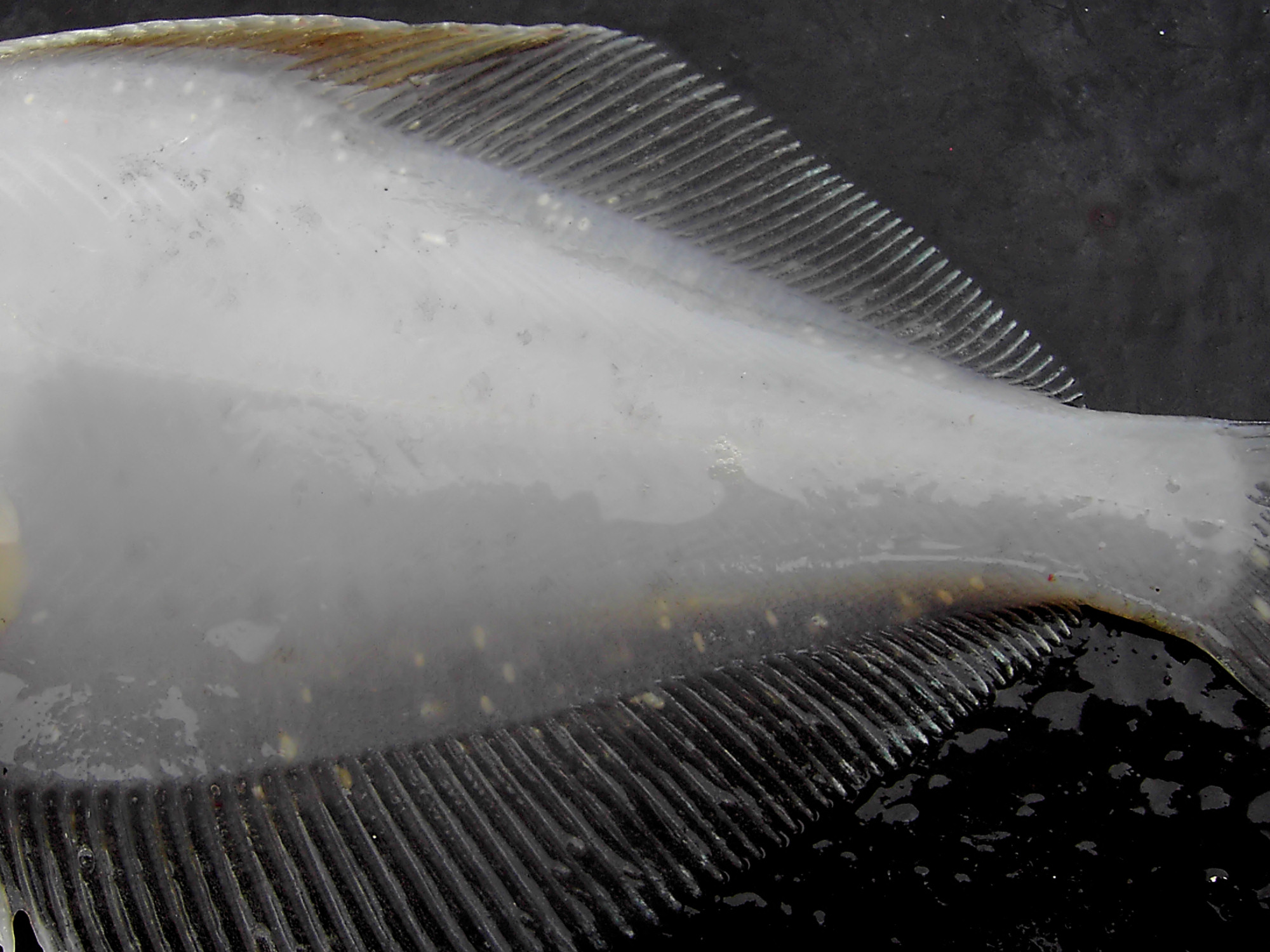 Parasitical worm (Acanthocolpidae - Digenea) on a Dab, from the Belgian coastal waters. The whitish spots are embedded individual trematodes